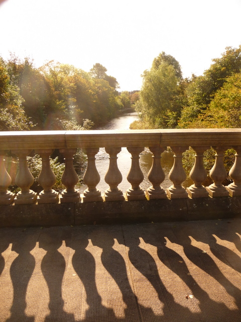 Glasgow: the River Kelvin in Kelvingrove Park Looking downstream from a footbridge.